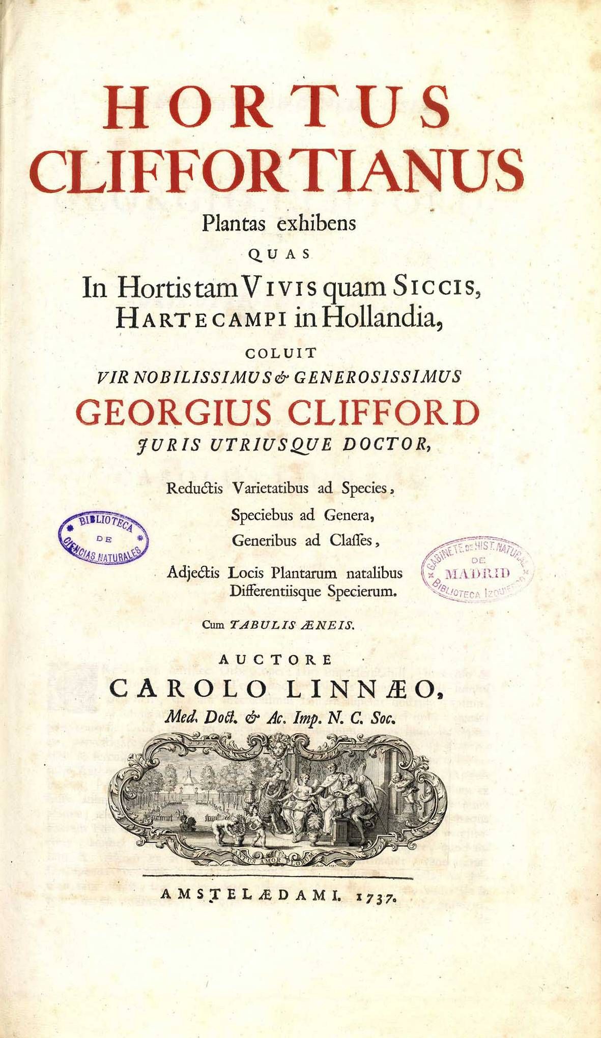 Title page of Linnaeus, C. (1738), Hortus Cliffortianus.